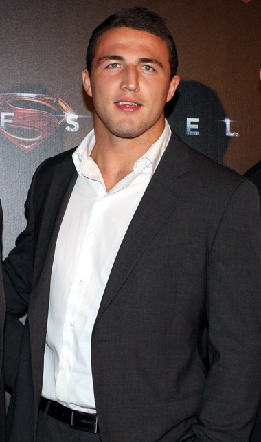 left to right: George Burgess (rugby league), Sam Burgess and Tom Burgess (rugby league) at Man Of Steel red carpet movie premiere, Sydney